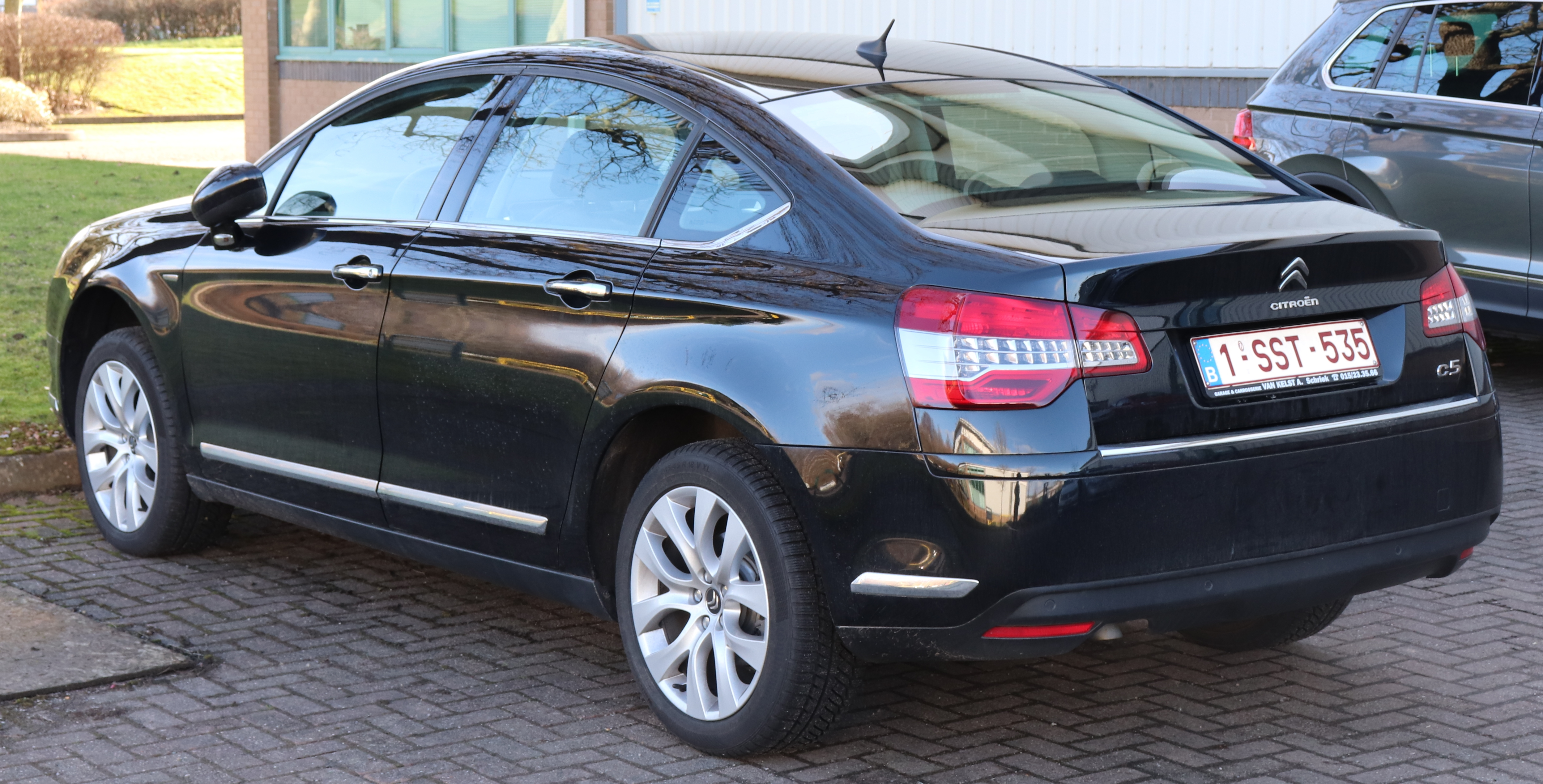 2017 Citroen C5 Sedan Rear Taken in Leamington Spa